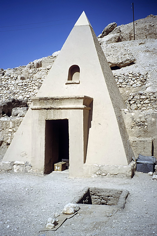 Pyramid at the tomb of Sennedjem, TT 1, Deir el-Medina, Luxor West Bank, Egypt